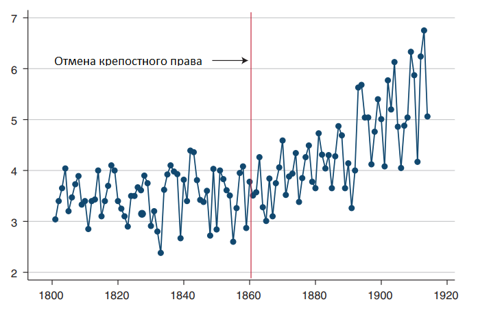 Dynamic of agricultural productivity in Russian Empire in 19 century